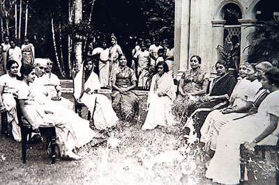 This photograph records the visit of the Nehru family to Sri Lanka when they met up with the Sri Lanka Tamil Women's Union in 1932. Picture shows Jawaharlal Nehru, Kamala Devi Chatopaudia (next to Nehru, partly covered), Kamala Nehru (head covered), Indira Nehru (seated seventh from the right) and Sarojini Naidu (fifth from the right).